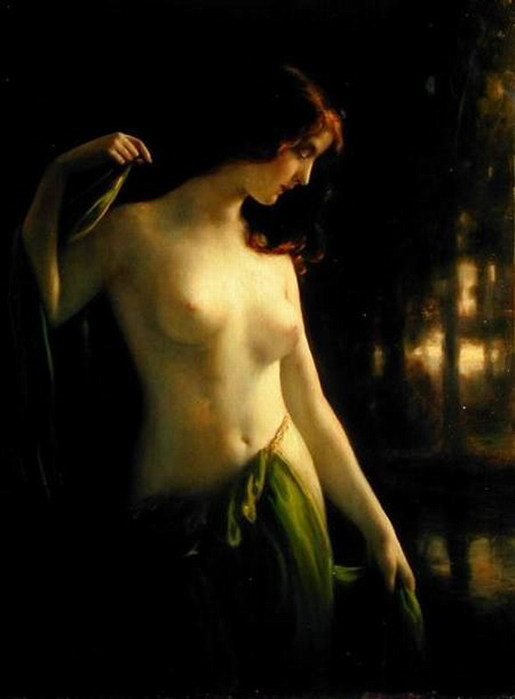 Water Nymph